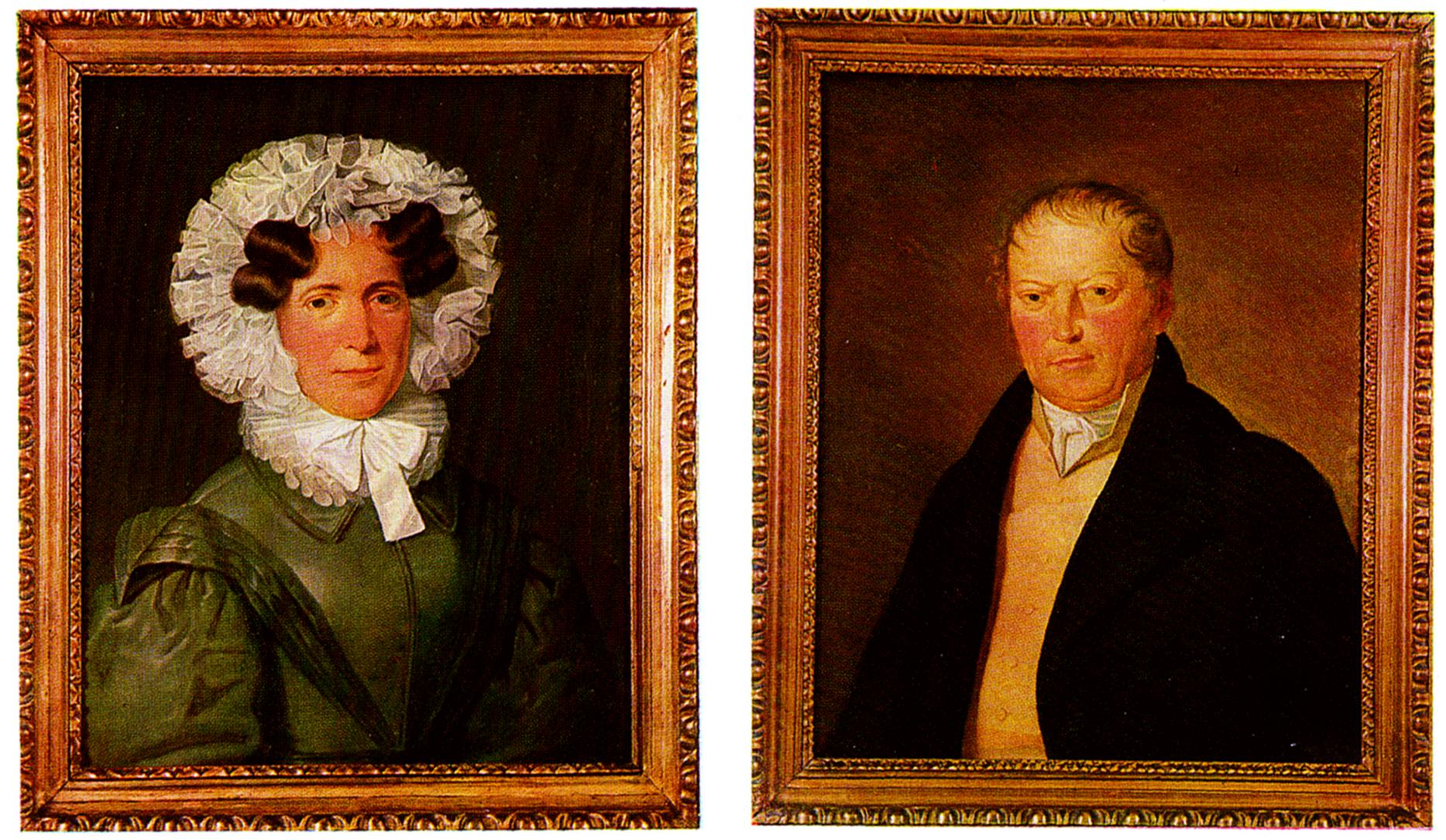 Two oil paintings from an unknown comtemporary painter, portraits of Teresia Müller and József Semmelweis, the parents of Ignác Semmelweis